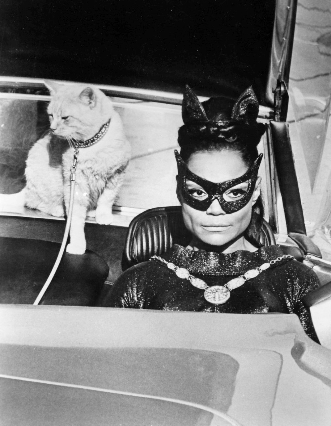 Photo of Eartha Kitt as Catwoman from the television series Batman.